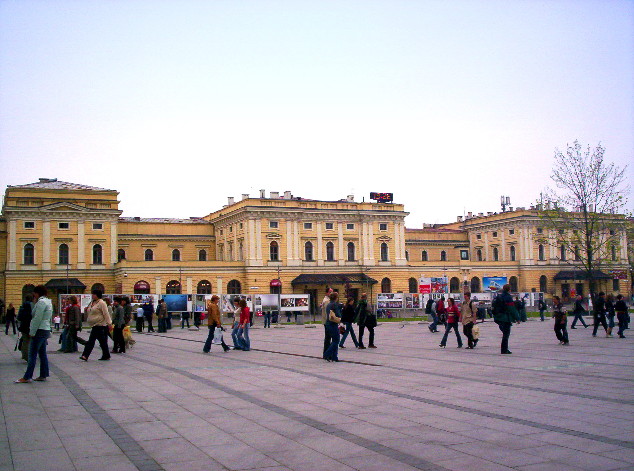 Main Train Station in Kraków, Poland